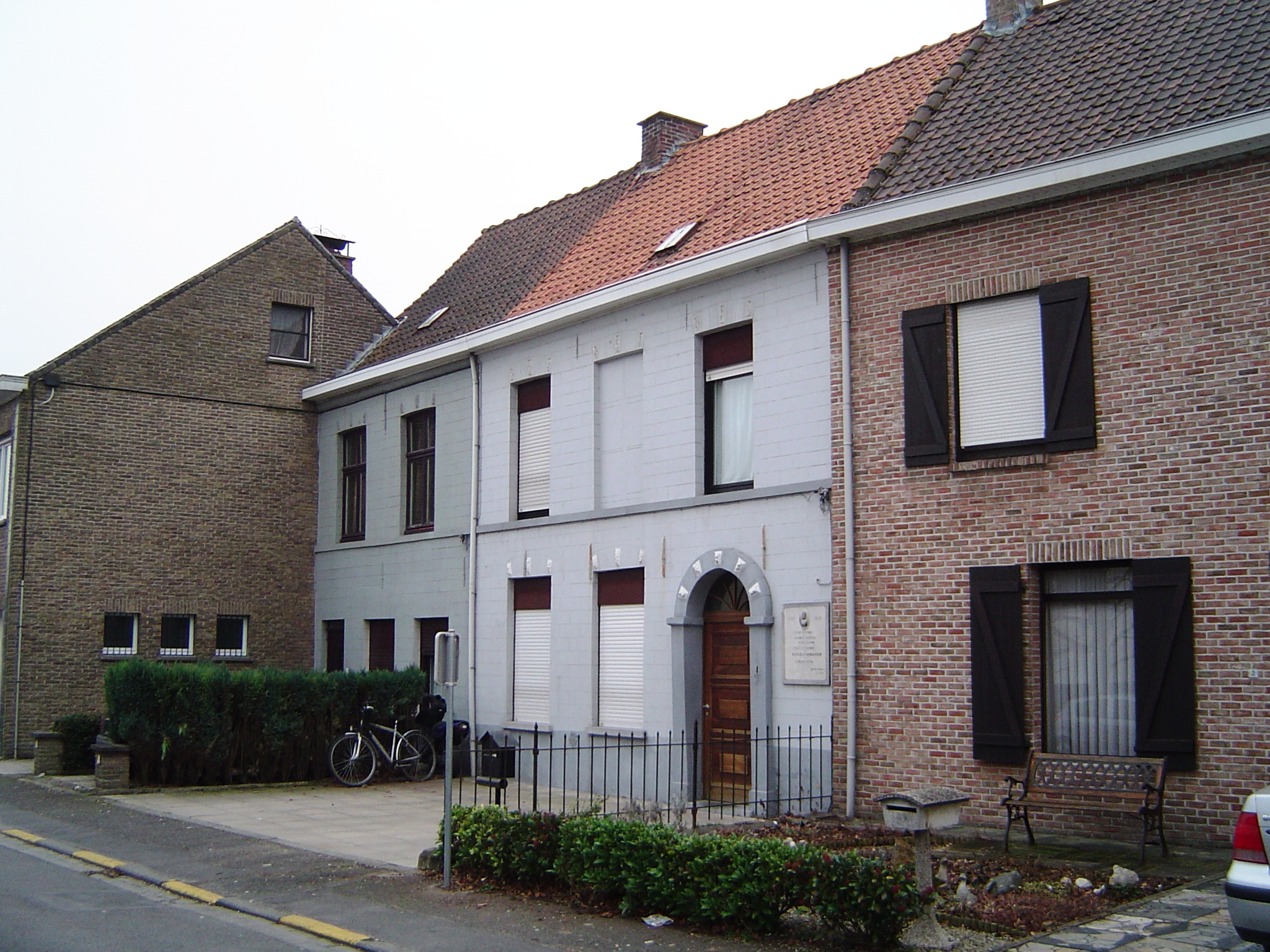 Houses at Dammeke that were part of the boarding-school of Pieter Jan Renier.